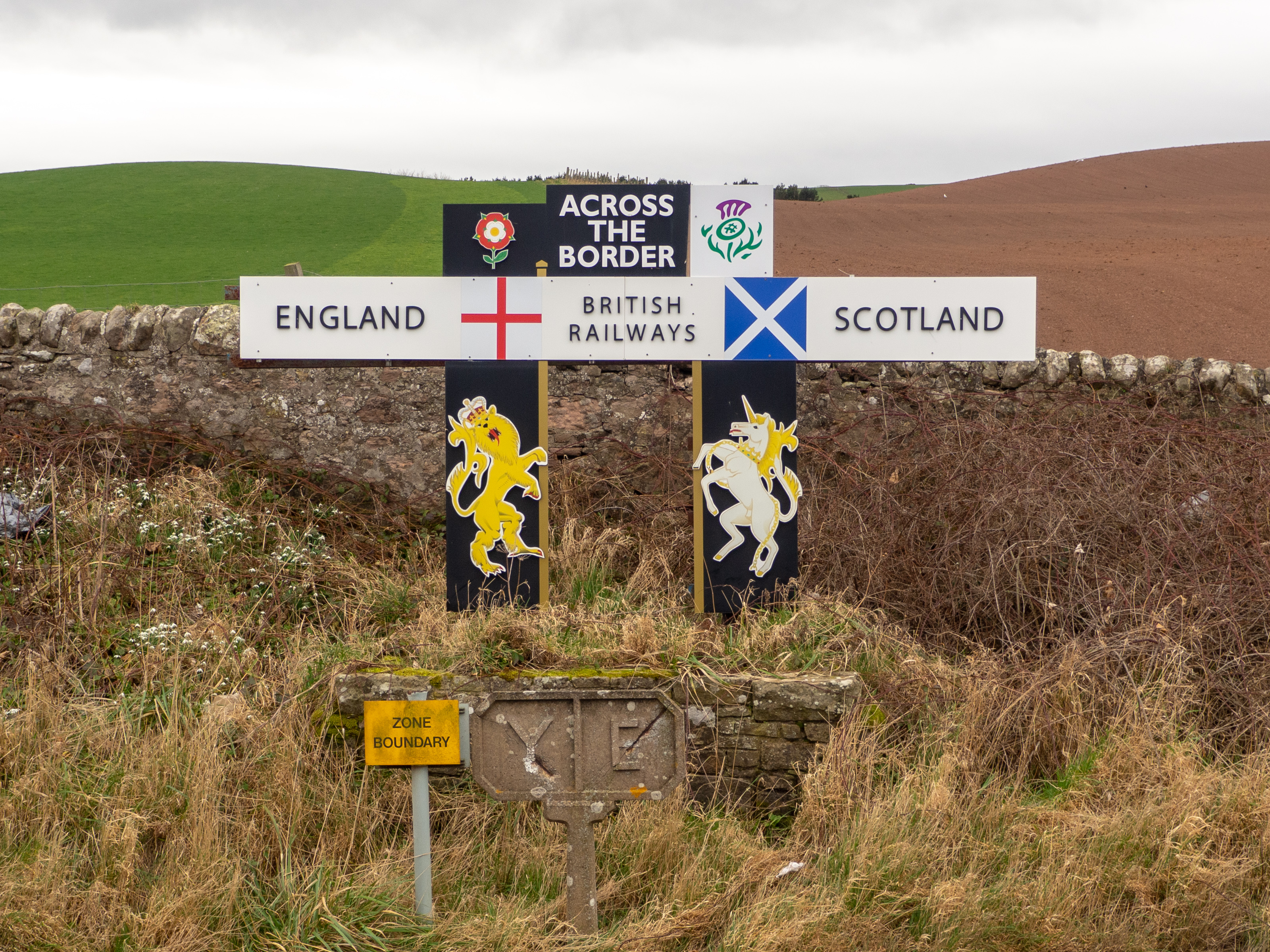 British Railways sign at the Anglo-Scottish Border at Marshall Meadows Bay. There are two identical signs, positioned on both sides of the East Coast Main Line.